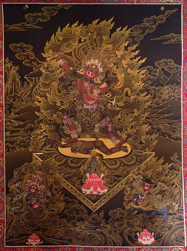 Ekajati